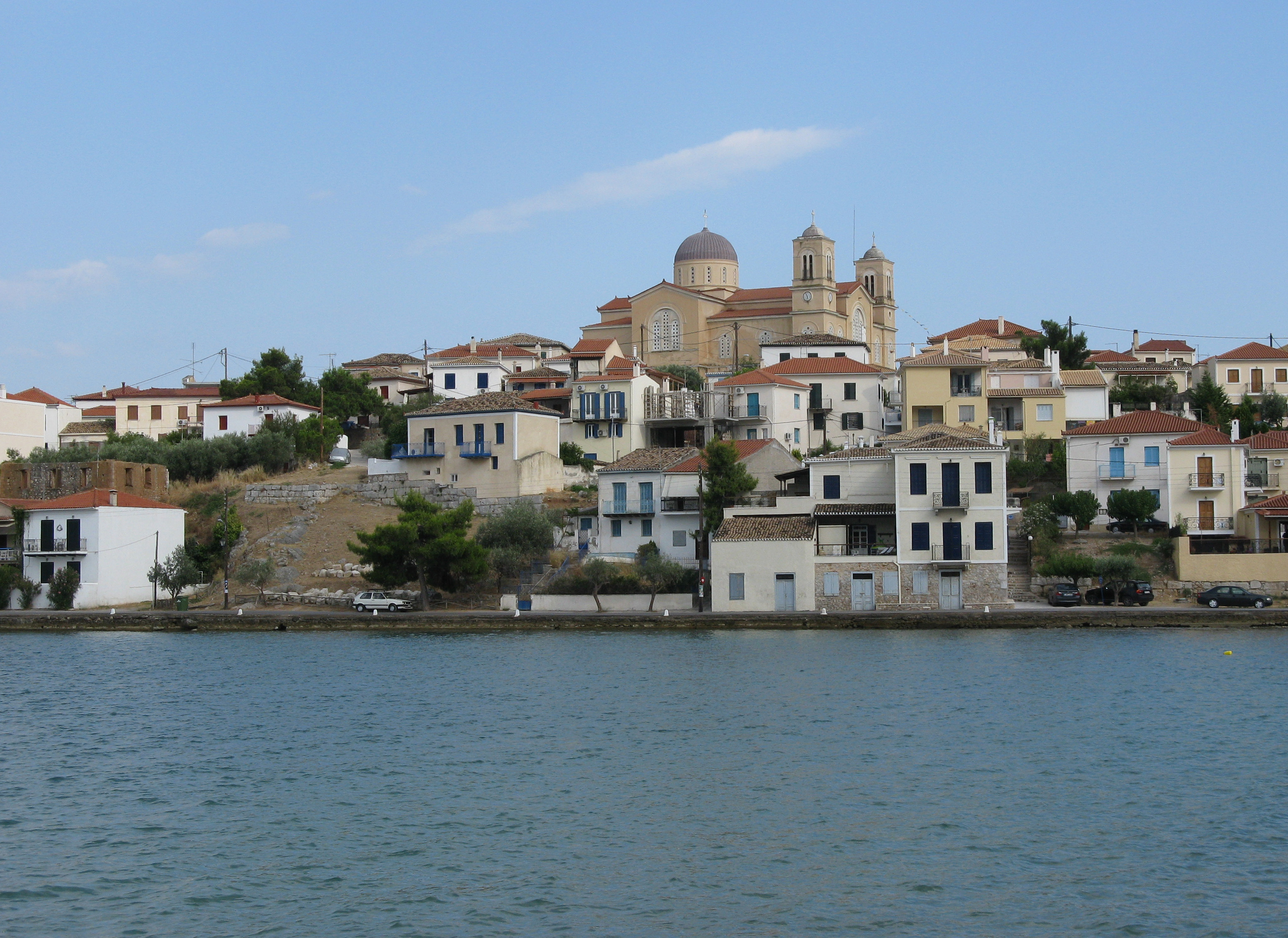 View across Hirolakas Harbour